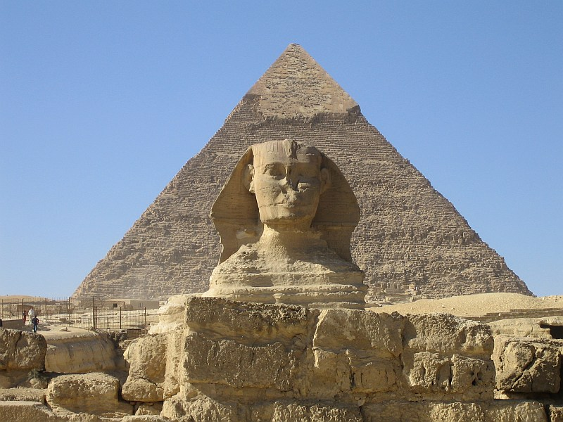 The Sphinx and the Khafre's Pyramid in Giza outside Cairo.